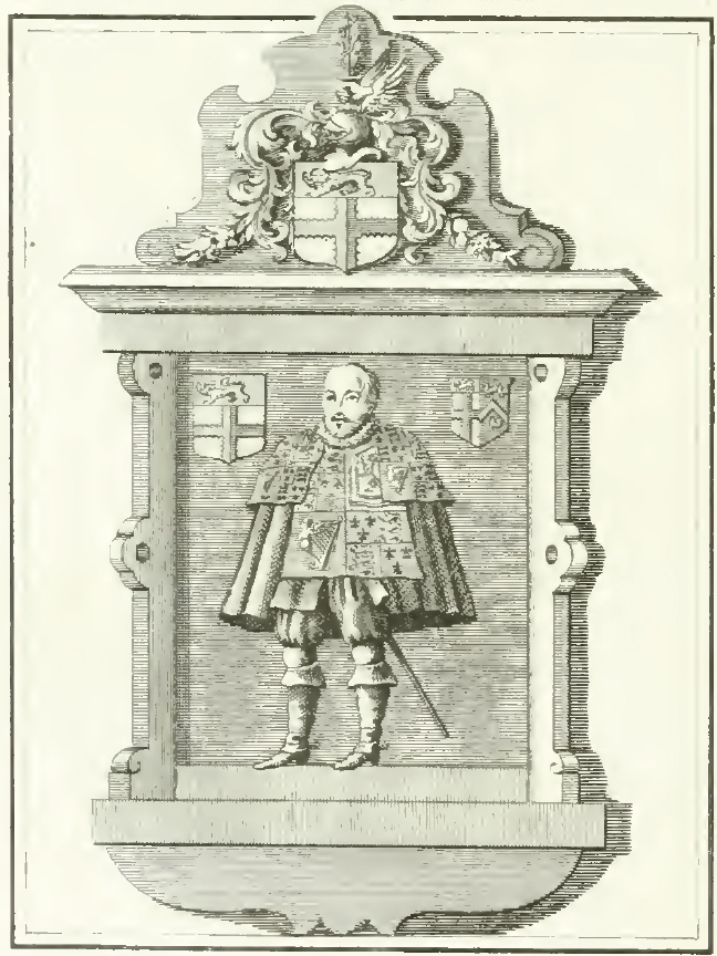 Engraving of the monument to Sir Ralph Brooke in St Mary's church, Reculver (demolished 1809).